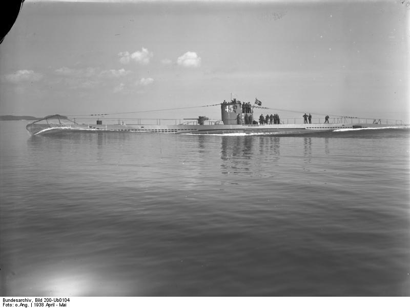 German submarine U 45 on flank speed trial before commisioned